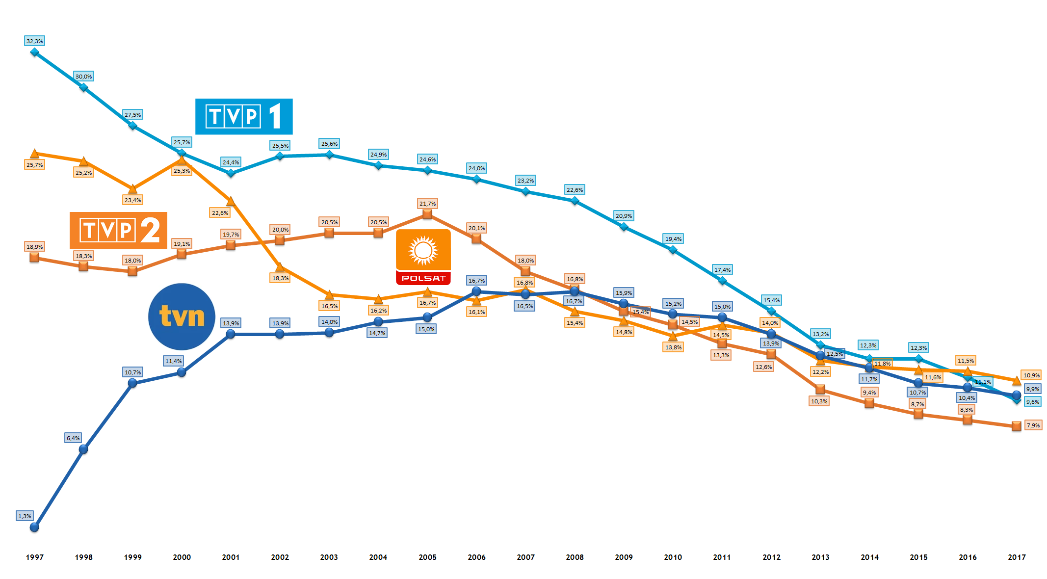 Viewing shares for TOP4 of TV channels in Poland (1997-2016)